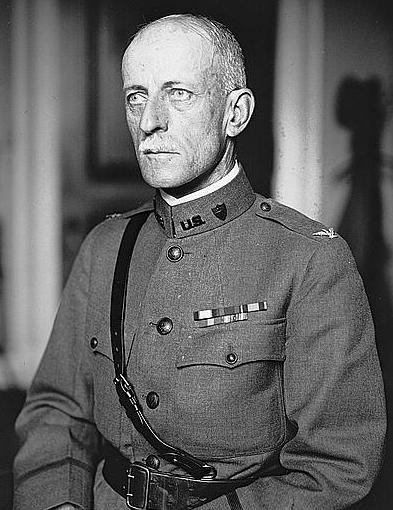 Col. Benj. Alvord